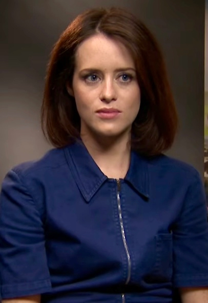 Claire Foy promoting Breathe in 2017